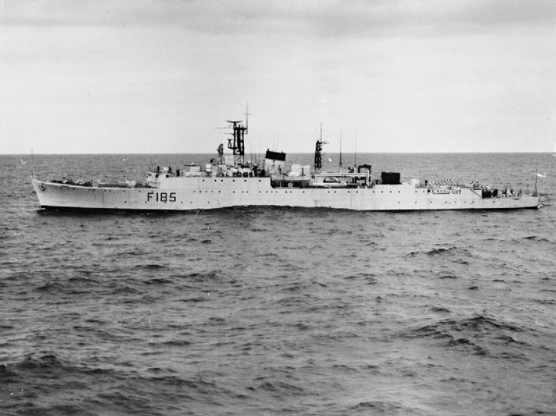 The Royal Navy Type 15 frigate HMS Relentless (F185) underway.